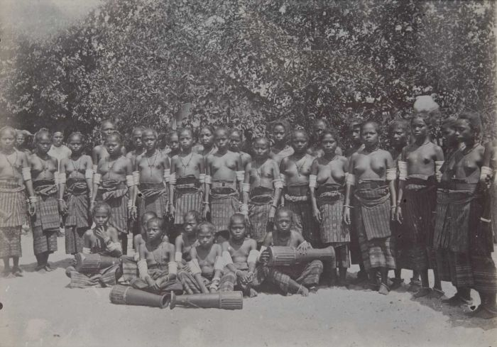 Portrait of a group women, Loloda Bay